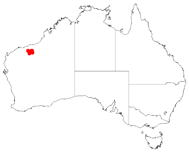 Acacia levata Occurrence data from Australasia Virtual Herbarium downloaded from on 8 December 2018